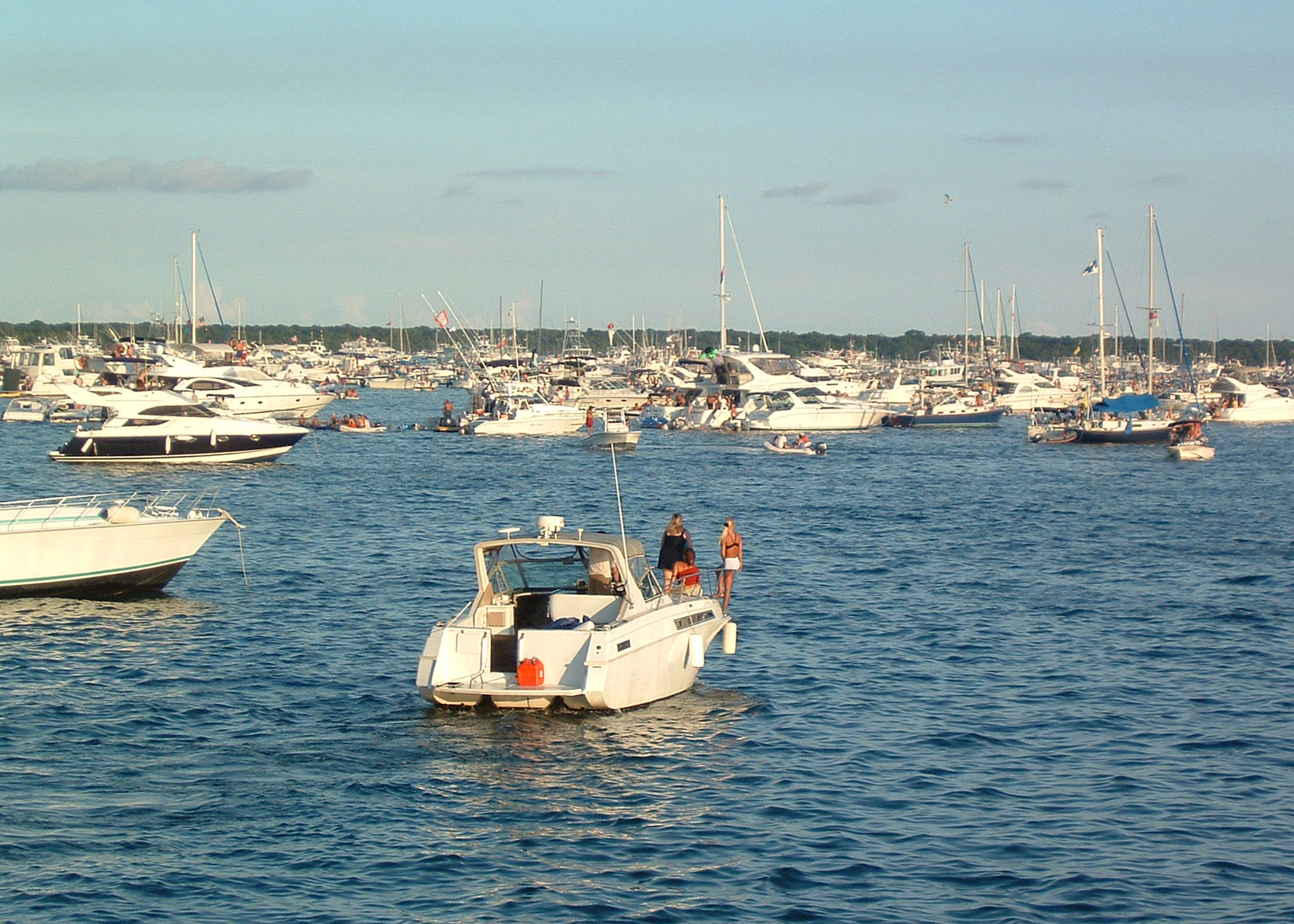 Coumbus Day boaters in Biscayne National Park